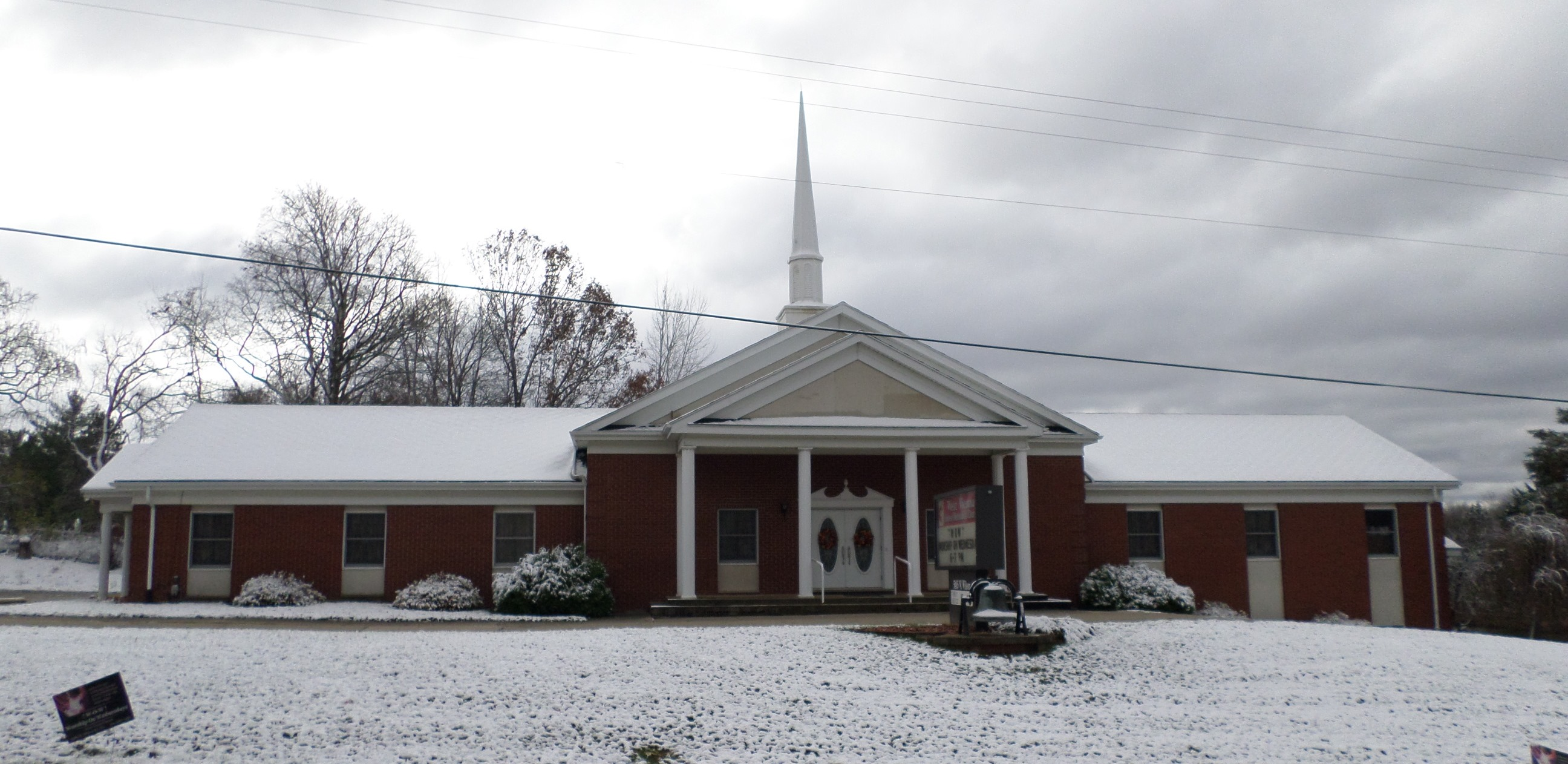 The West Vienna United Methodist Church, located at 5485 W. Wilson Rd, Clio, MI.